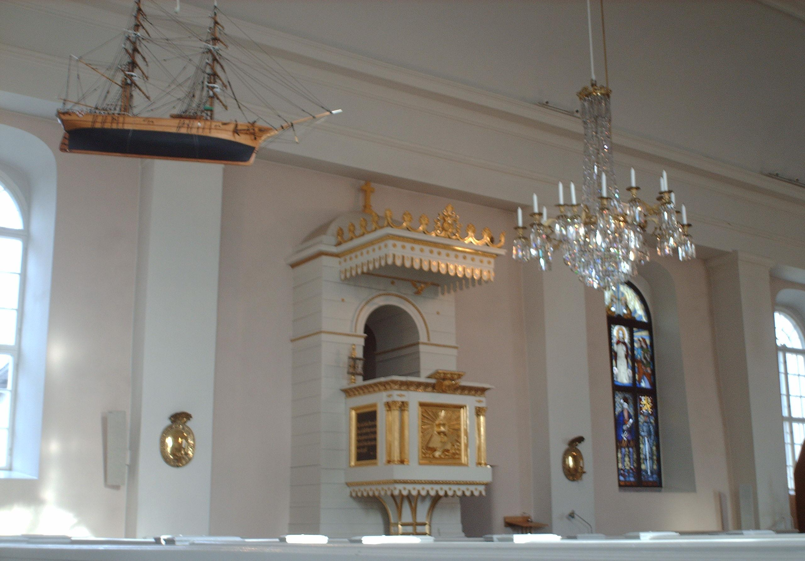 Ekenäs Church, Finland